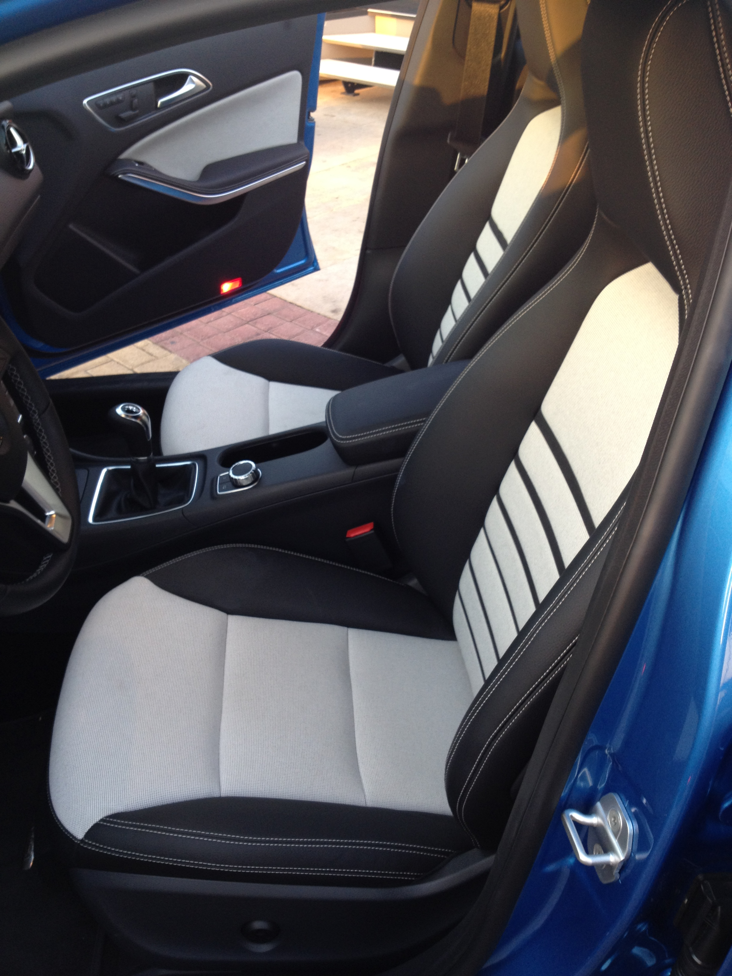 Mercedes A-Class 2012.